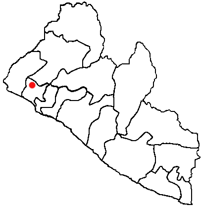 Tubmanburg, Liberia Location Map; created with the GIMP. Made by User:Acntx.